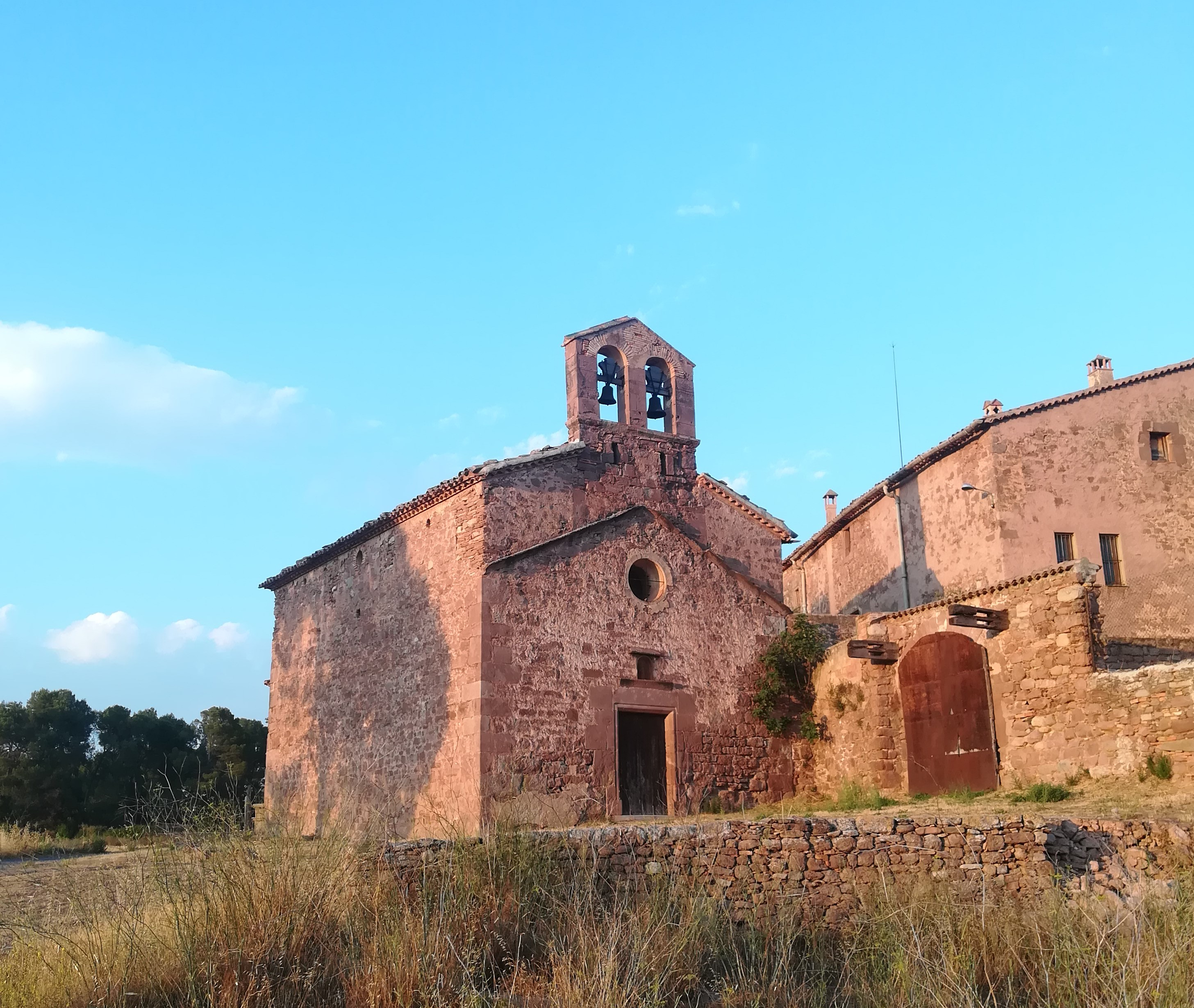 Chapel in Torres de Bages, municipality of Sant Joan de Vilatorrada, Spain